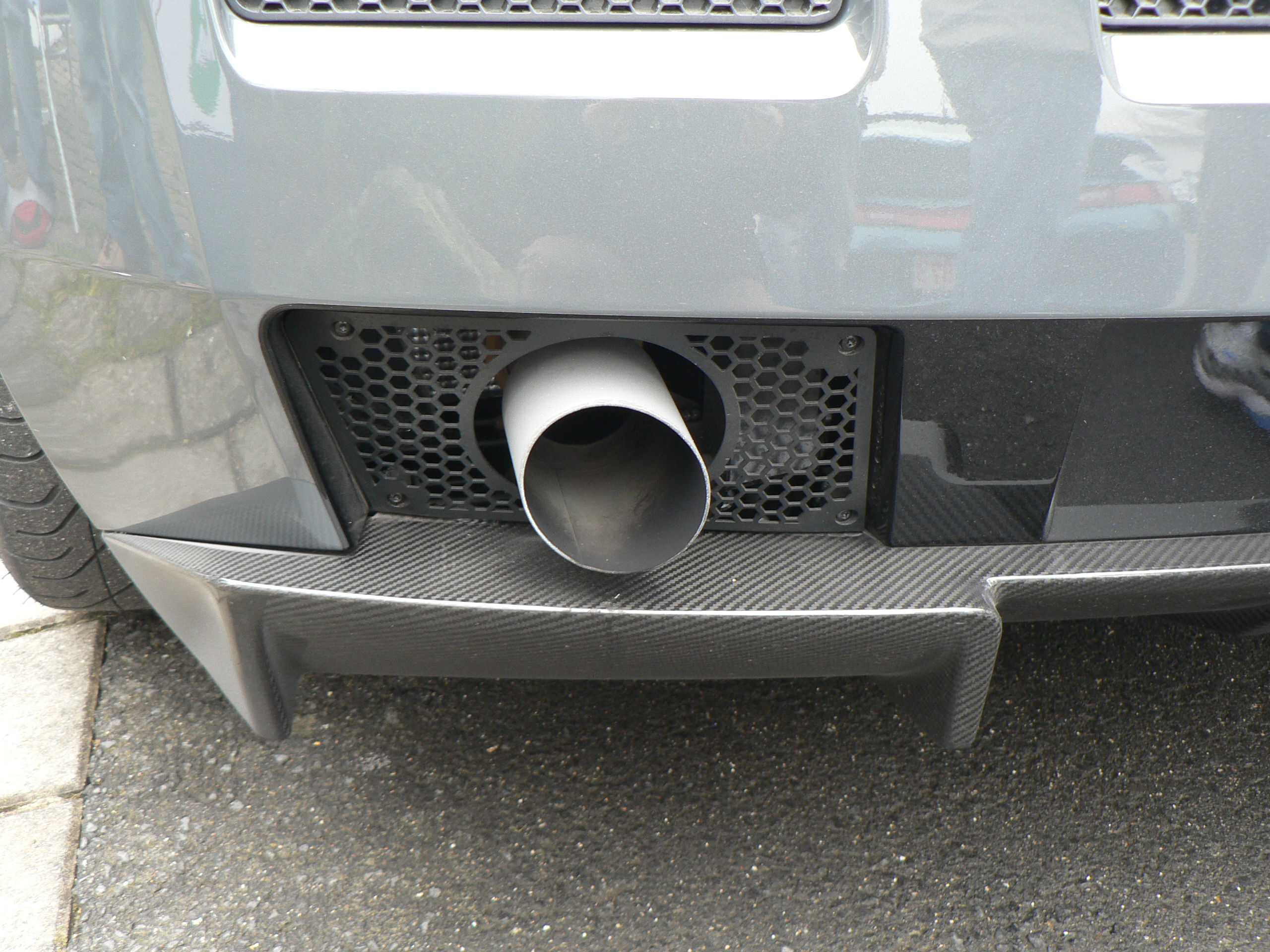 Exhaust of a Lamborghini Gallardo Superleggera